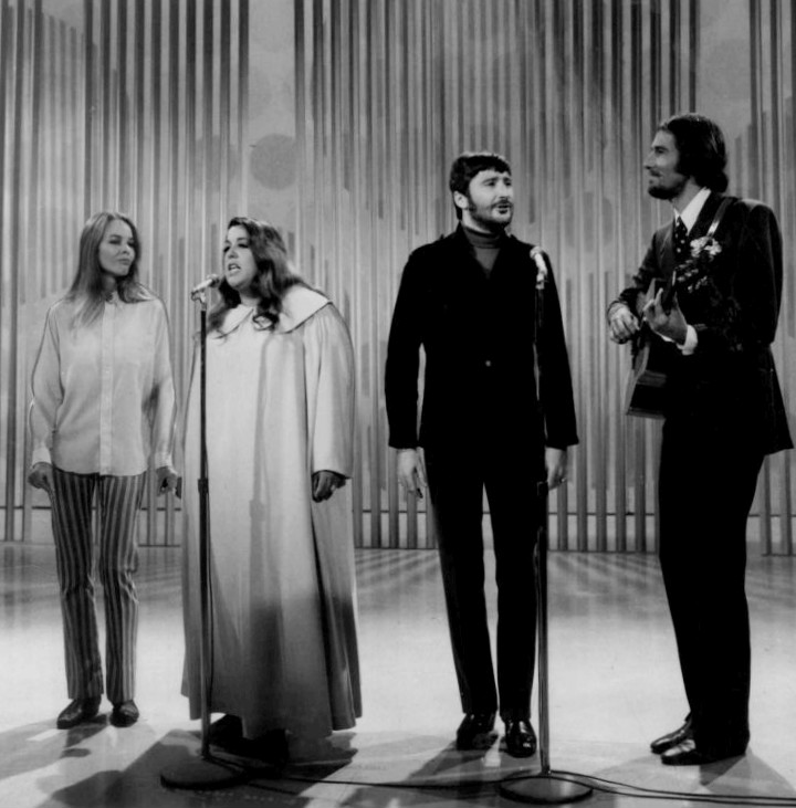 Photo of The Mamas and the Papas performing on The Ed Sullivan Show. From left-Michelle Phillips, Cass Elliot, Denny Doherty, and John Phillips.